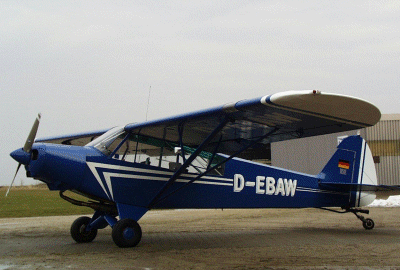 Piper PA 18 D-EBAW